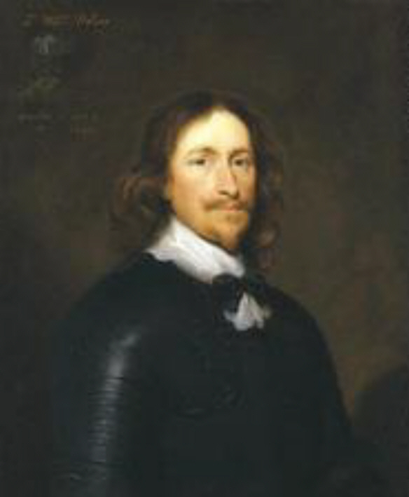 Sir William Waller (c. 1597 - 1668), English soldier during the English Civil War